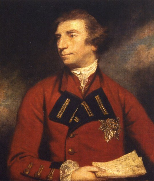 Jeffrey Amherst, 1st Baron Amherst, governor of British North America